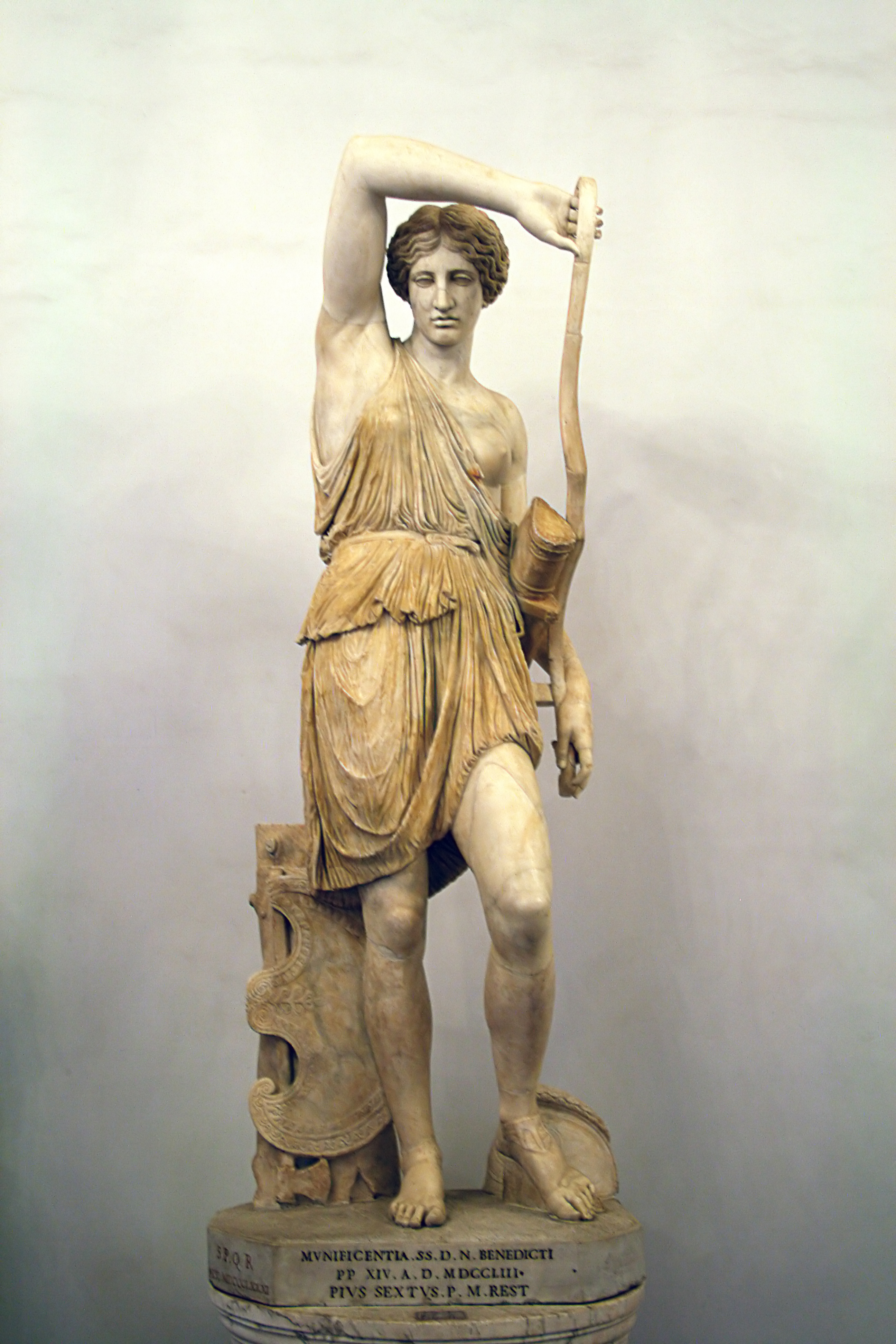 Statue of the Wounded Amazon of the Capitol-Mattei type. Marble